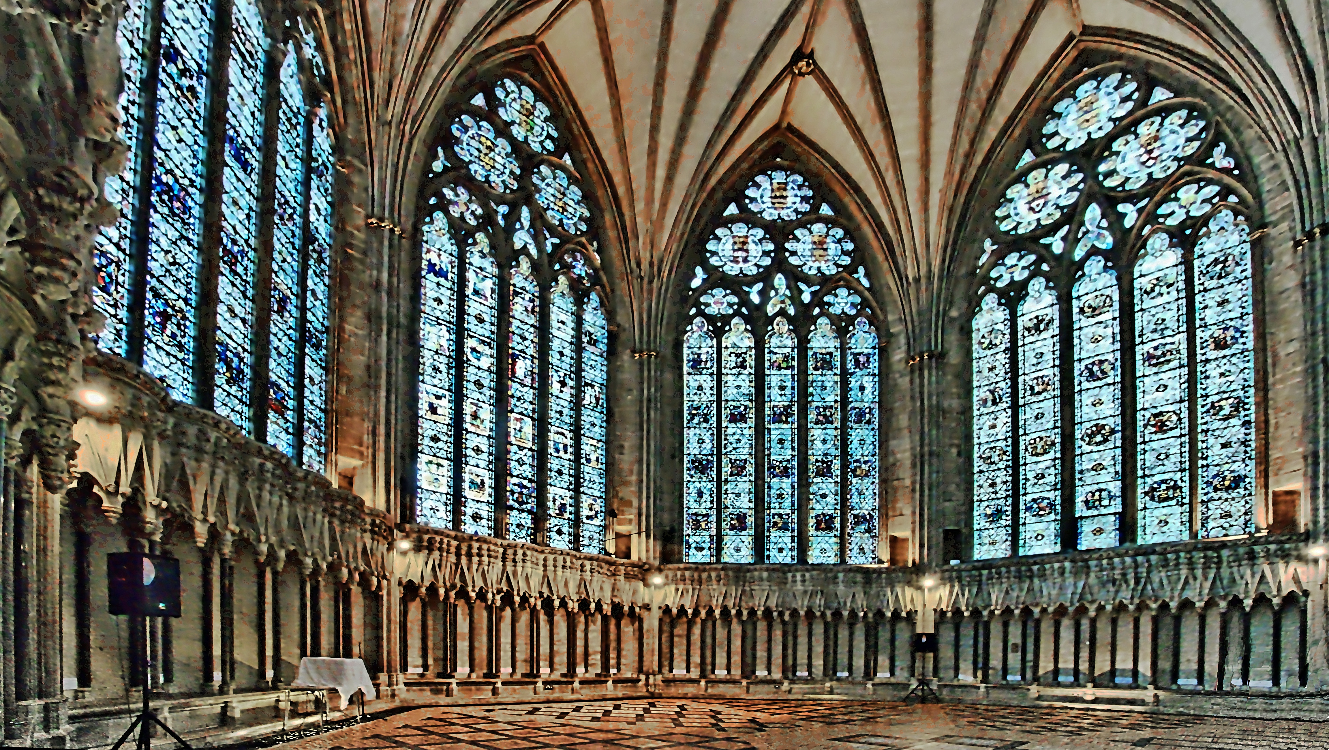 Chapter house of York Minster